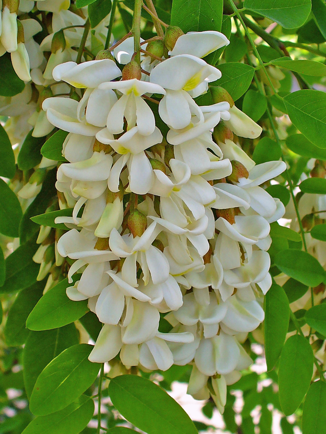 Robinia pseudoacacia, Fabaceae, Black Locust, False Acacia, inflorescence. Karlsruhe, Germany.